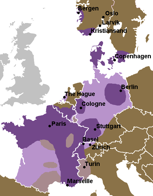 Map of the distribution of uvular/dorsal rhotics (e.g. [ʁ ʀ χ]) in northwestern continental Europe. not usual only in some educated speech usual in educated speech general